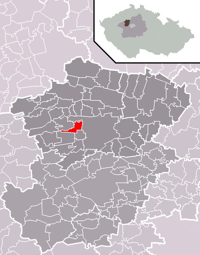 Location of Tuřany municipality within Kladno District and administrative area of Slaný as a Municipality with Extended Competence.